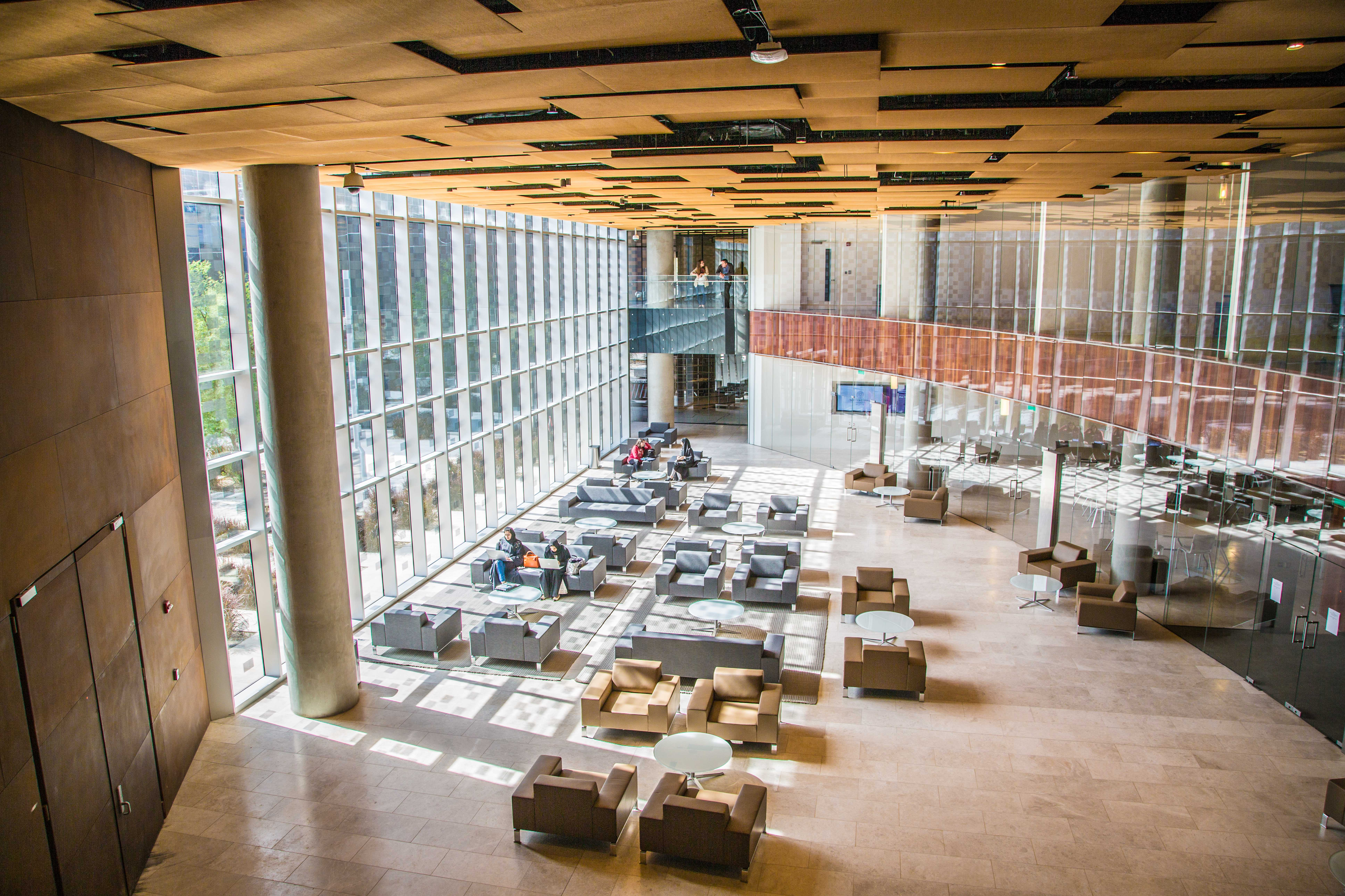 Northwestern students study on campus at Qatar.